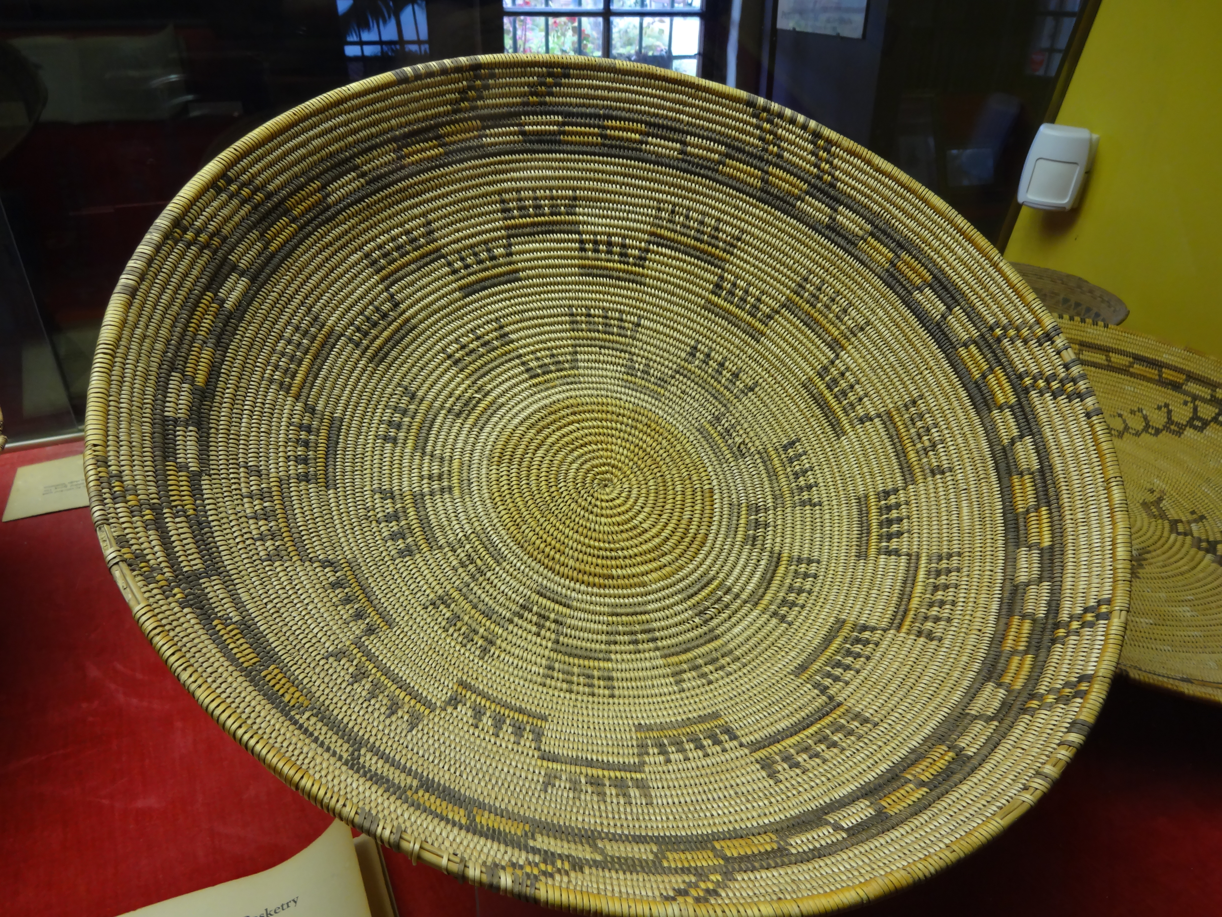 Basket used by Chumash Indians, Mission San Buenaventura museum